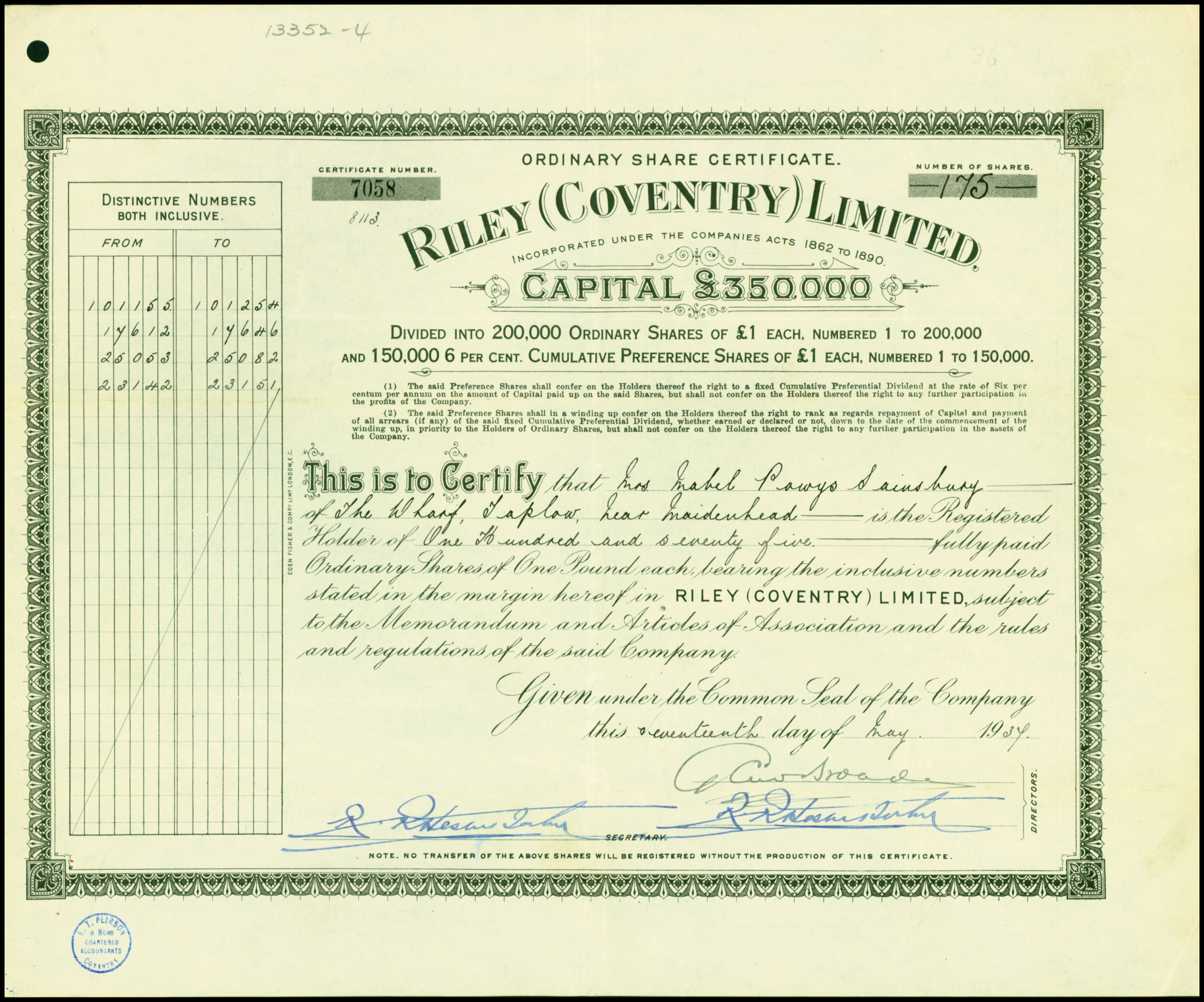 Share of the Riley (Coventry) Ltd., issued 17. May 1924